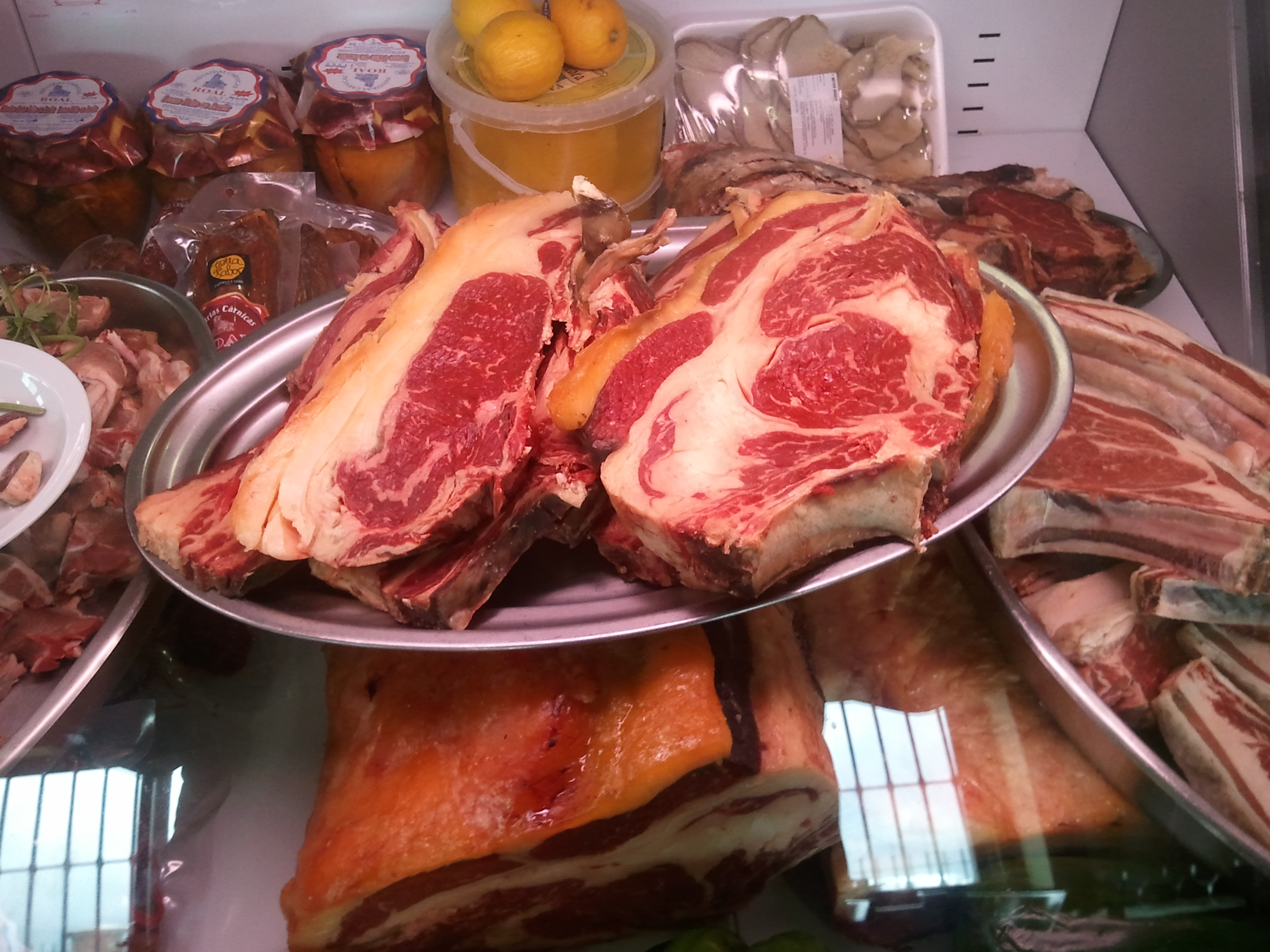 Chuletón de Ávila, Restaurant La Travesía, in Roal, La Torre, Ávila. Spain.